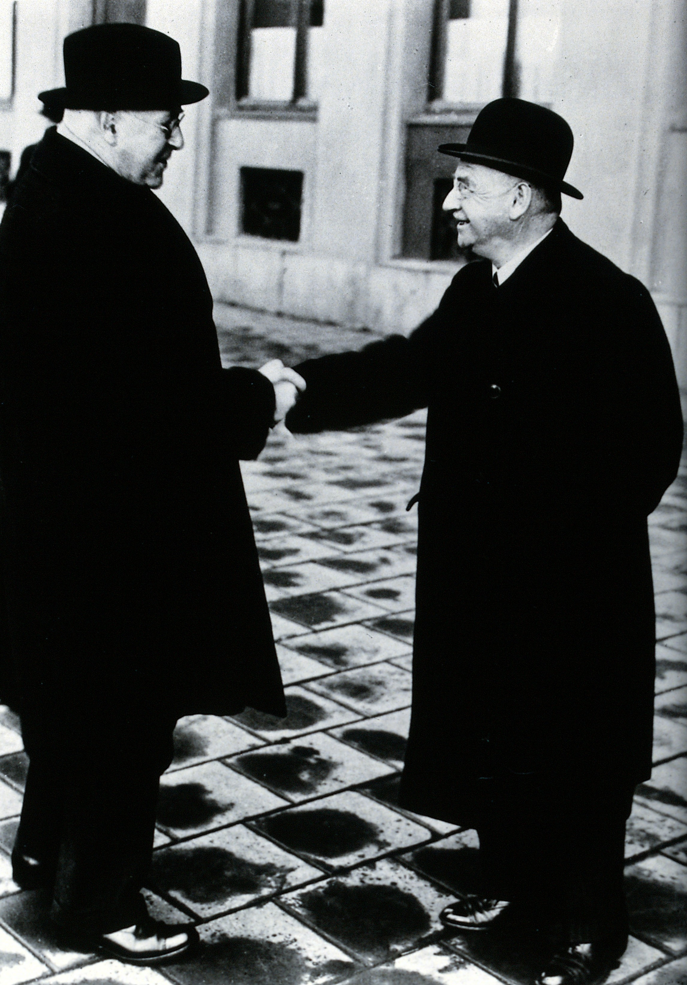 Sir Henry Hallett Dale and Otto Loewi. Photograph. Iconographic Collections Keywords: portrait photographs